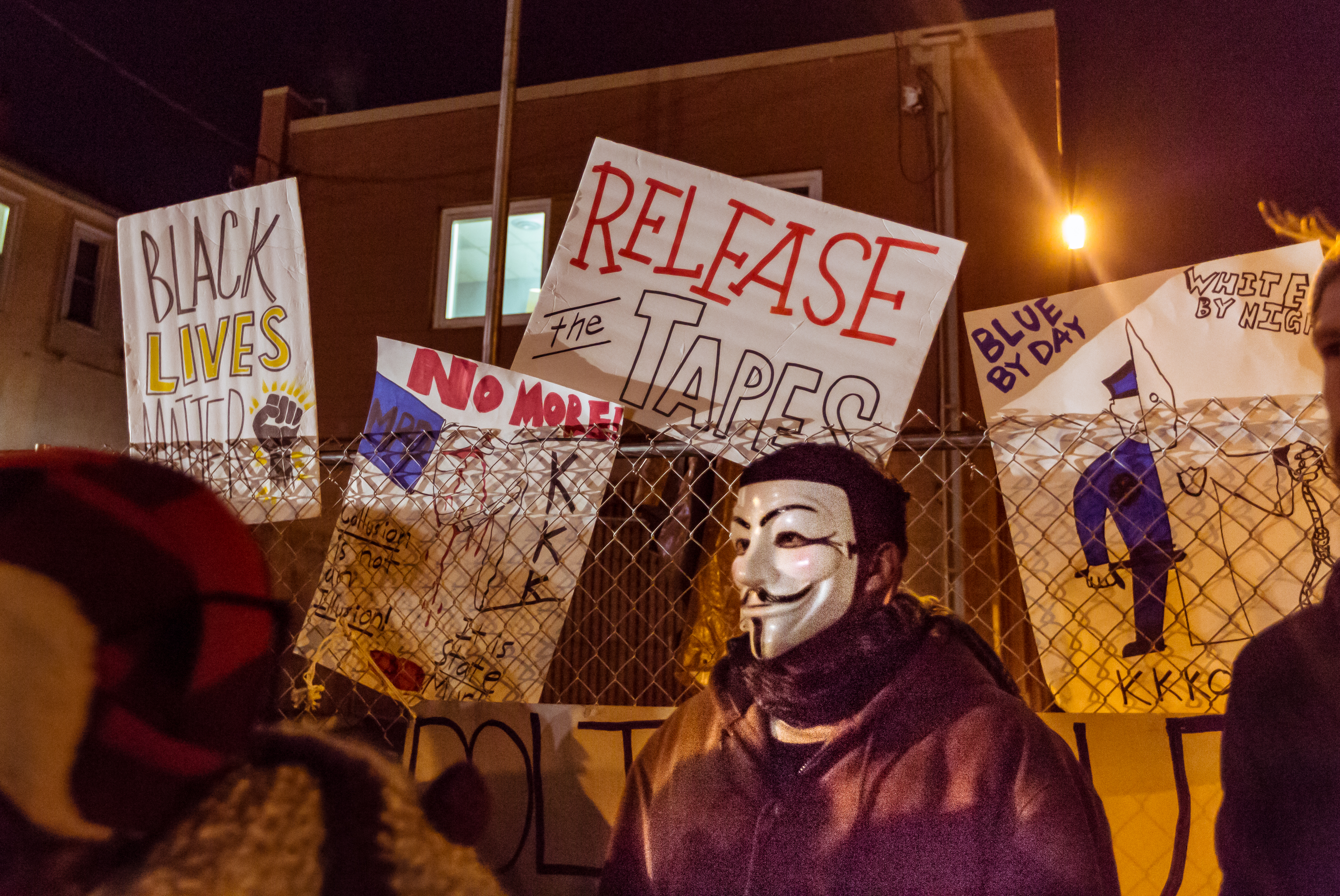 Community members gather for a Black Lives Matter demonstration outside the offices of the Police Officers Federation of Minneapolis, the Minneapolis Police Department's union on December 3, 2015. Photo: Tony Webster